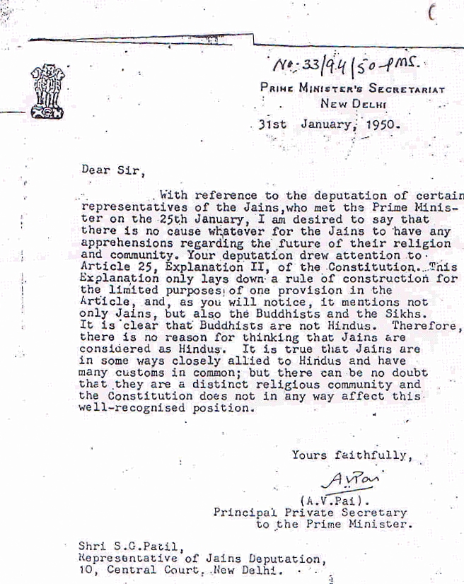 Letter issued to Jain committe by Prime Misnisters office after the Indian Constitution was published. The letter is self explainatory